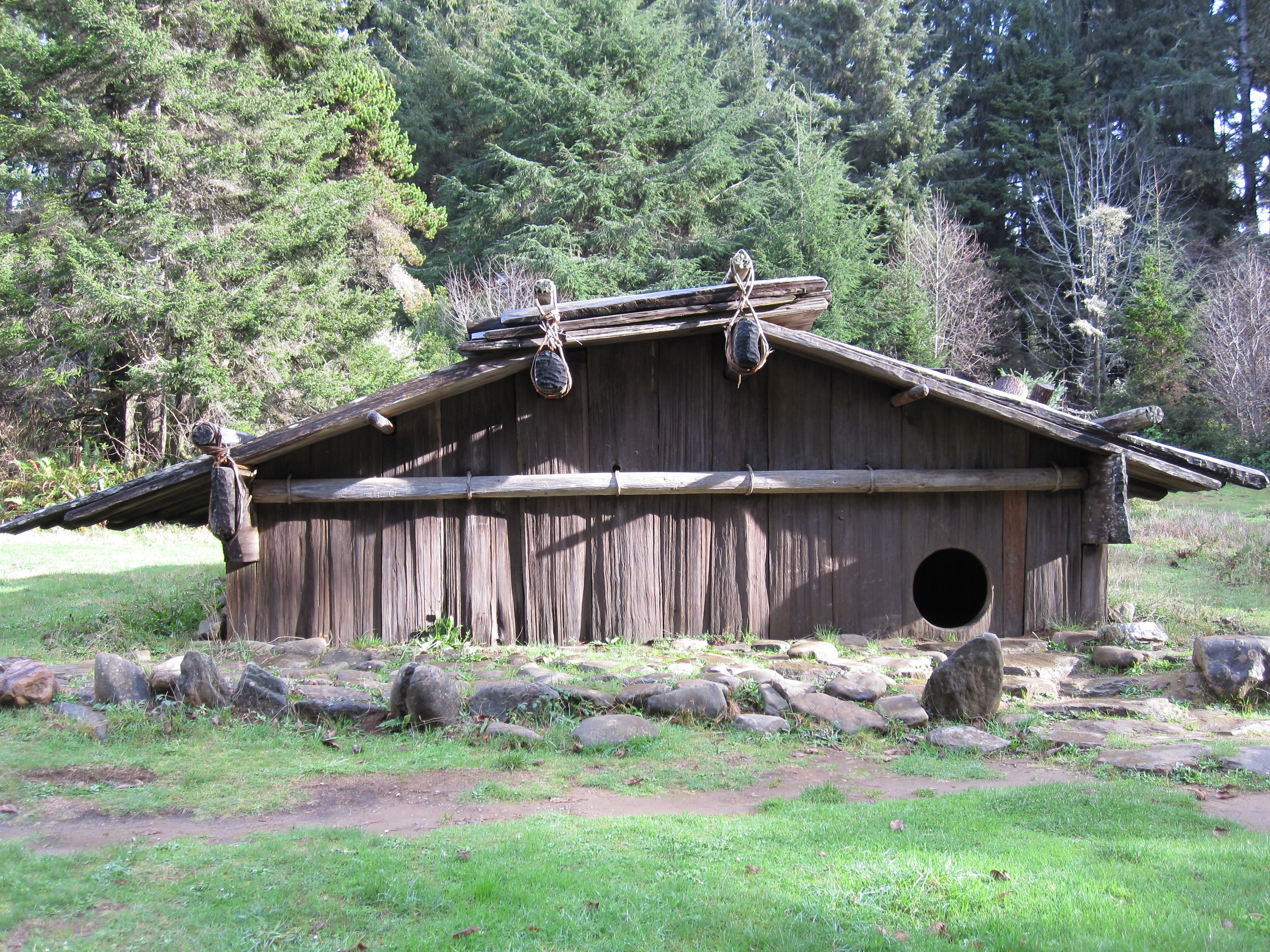 Traditional Yurok Indian family house at the Sumêg Village, located inside Patrick's Point State Park, northern California.